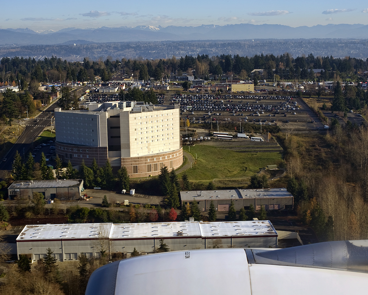 The only thing between right here and the south end of Sea-Tac's runways is the remnants of Tyee Golf Course.